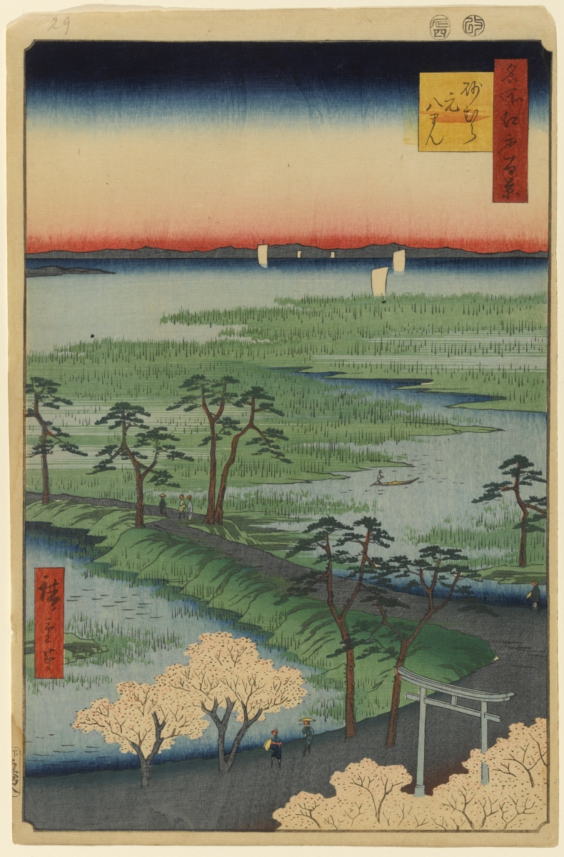 Part of the series One Hundred Famous Views of Edo, no. 029, part 1: Spring.